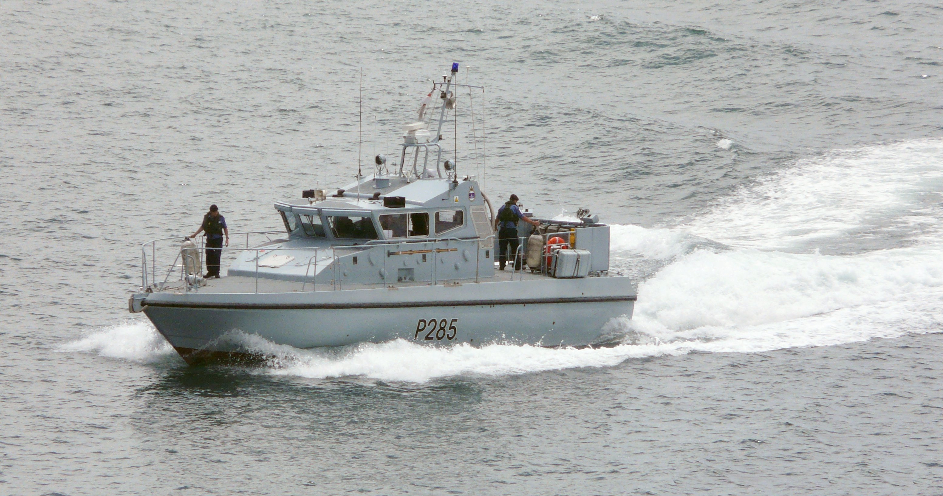 HMS Sabre coming into Harbour in Gibraltar.